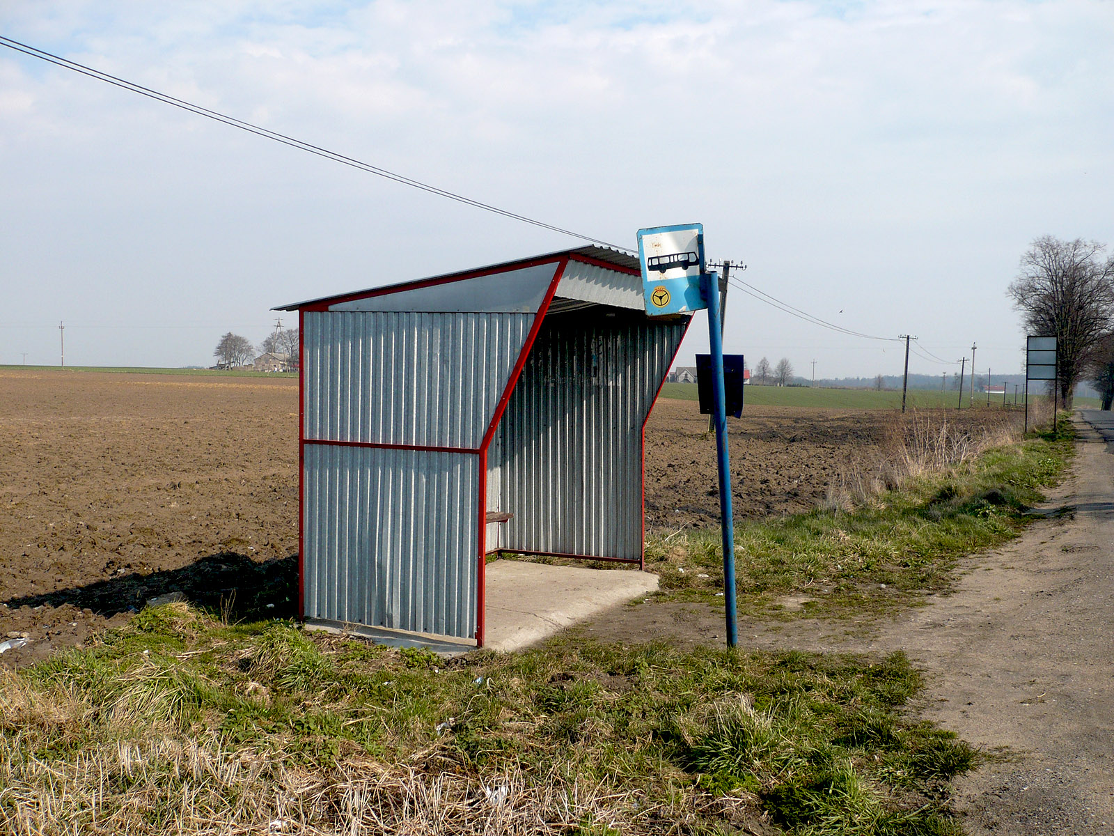 Bus stop in Slup.